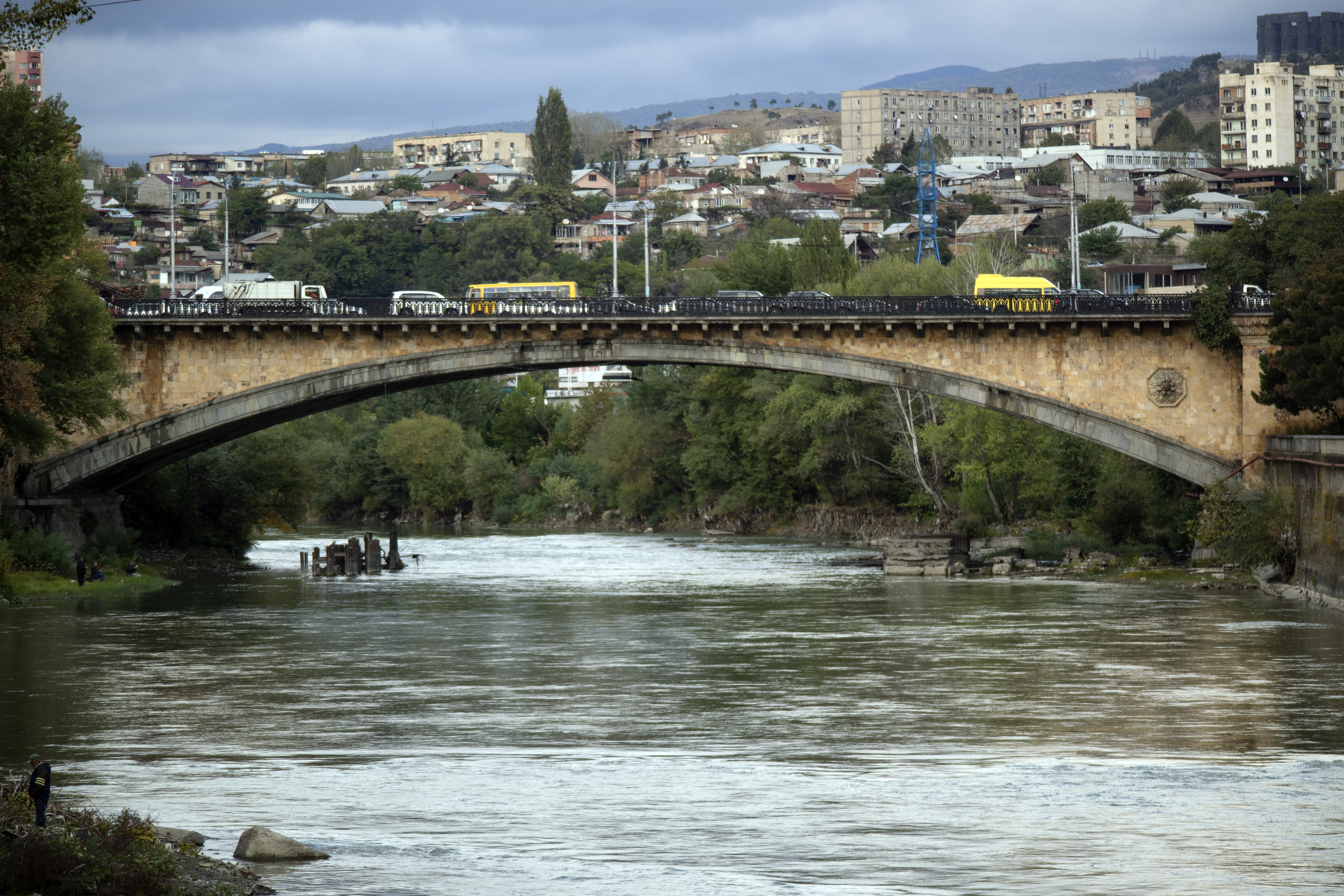 The Kura is an east-flowing river south of the Greater Caucasus Mountains which drains the southern slopes of the Greater Caucasus east into the Caspian Sea.